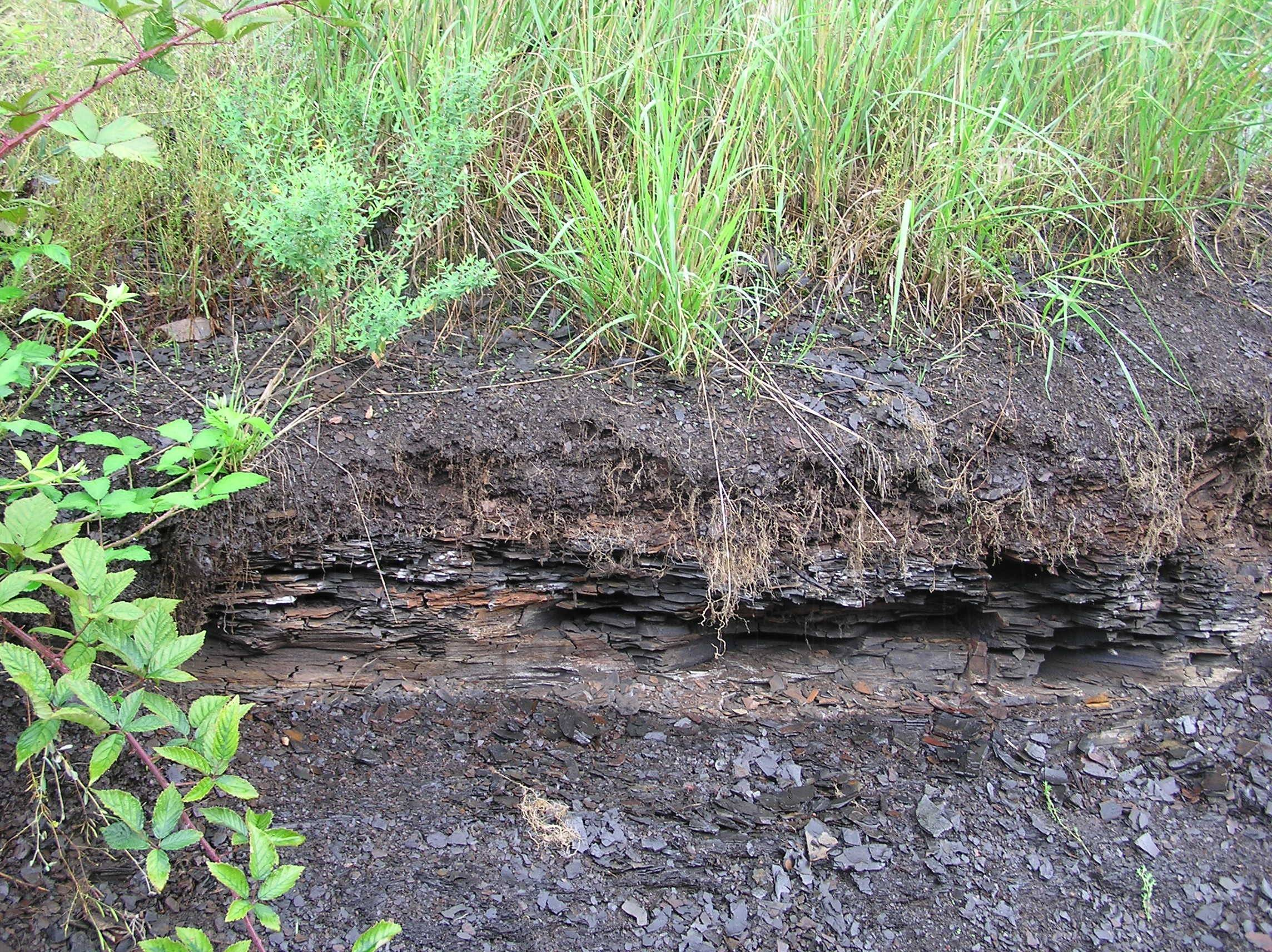 Oil Shale Pit, Grube Messel, Tertiary, Eocene, Germany